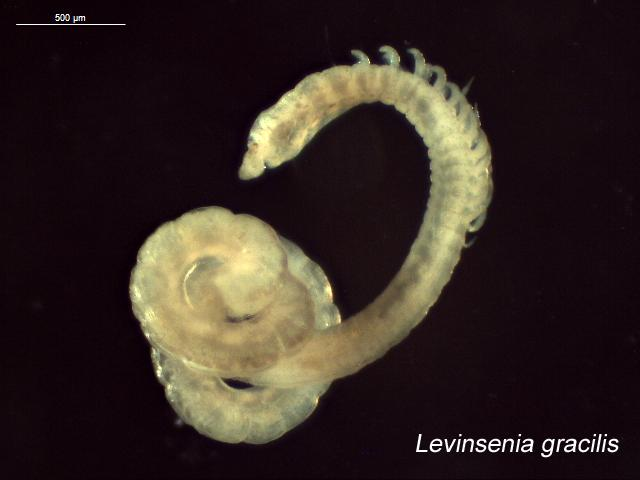 Collected from Puget Sound sediments and photographed by the Washington State Department of Ecology’s Marine Sediment Monitoring Team. For more information about this team’s work visit